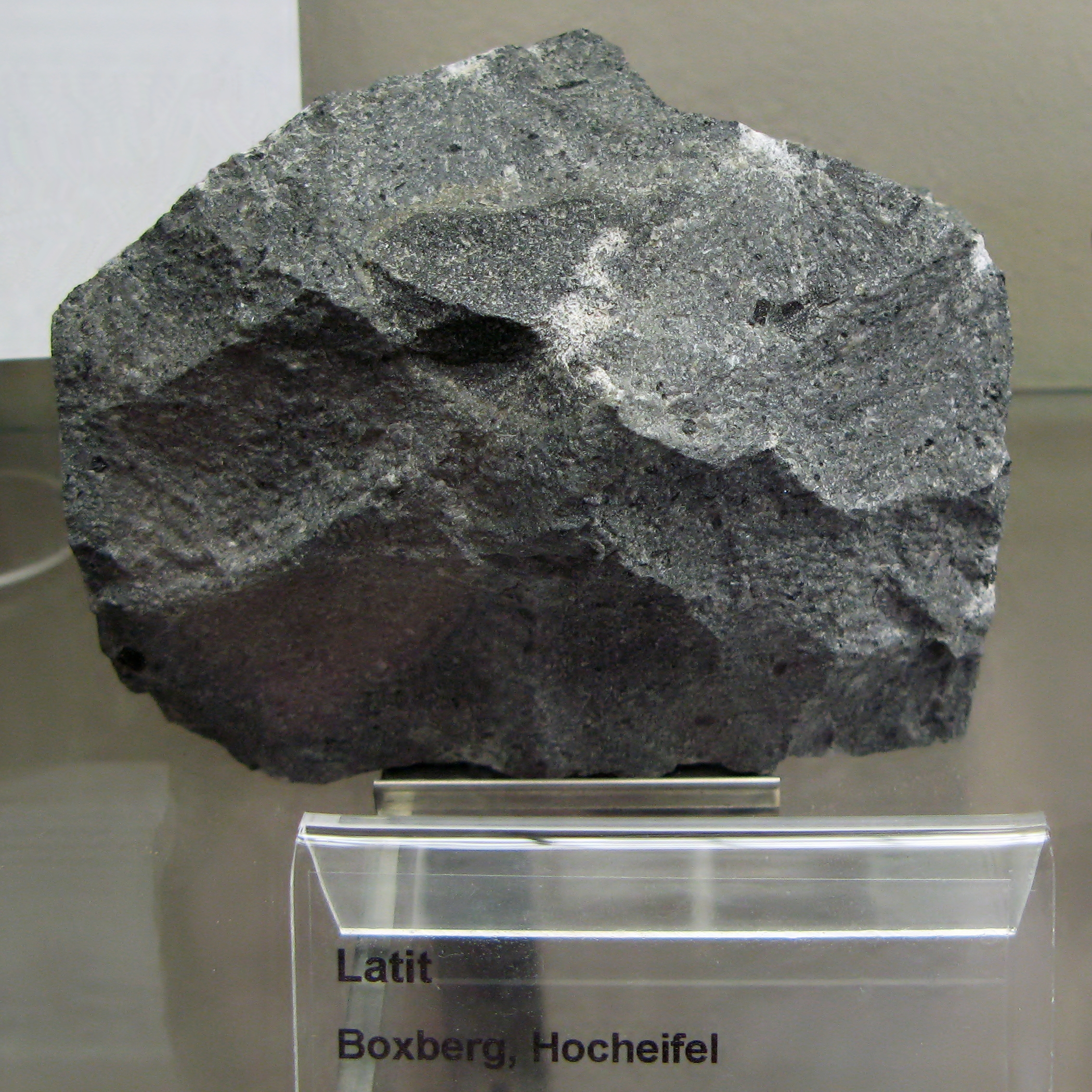 Latite - Locality: Boxberg, Hocheifel - Exposed in the Mineralogical Museum, Bonn, Germany